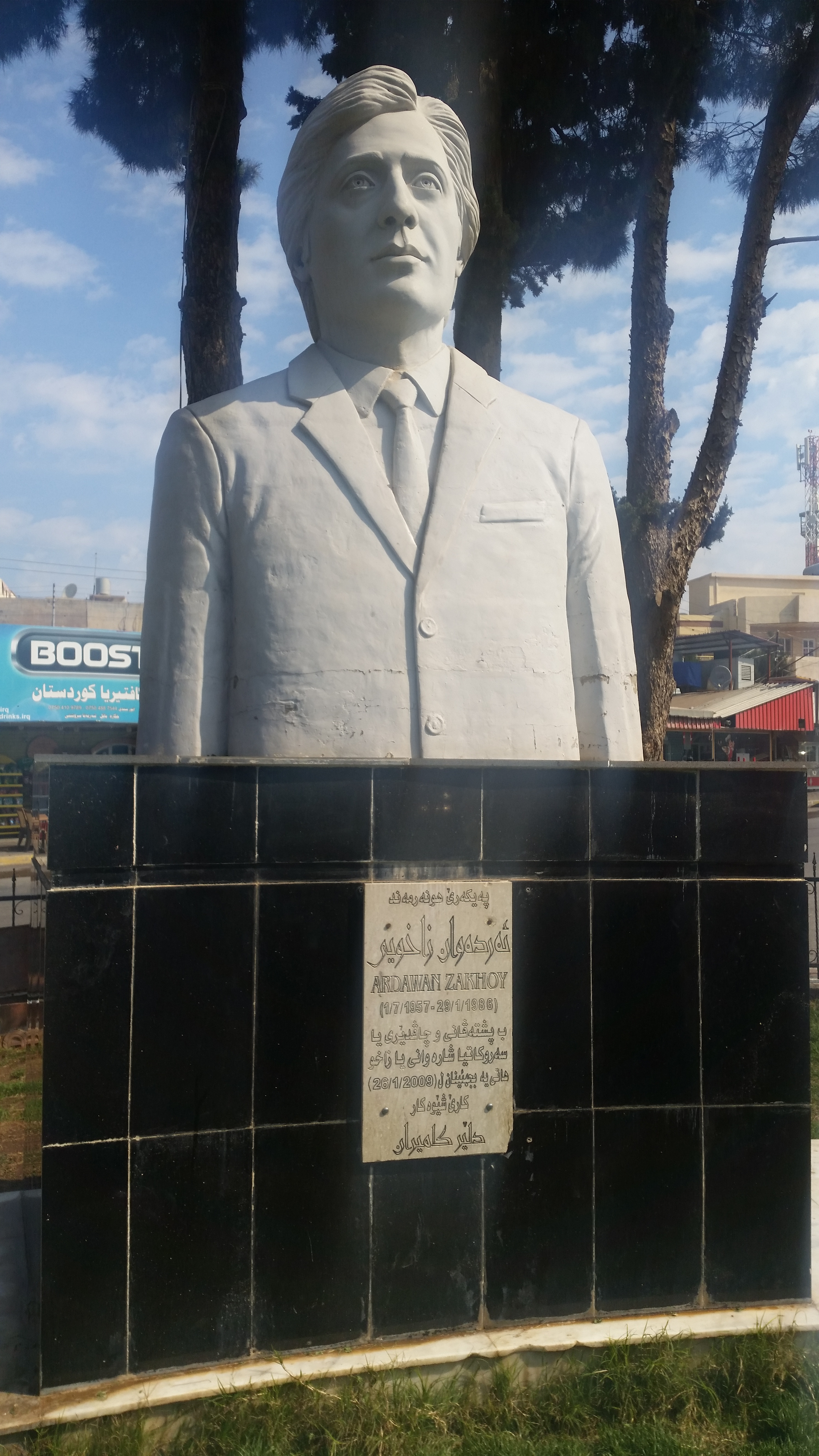 Erdawan zaxoyi